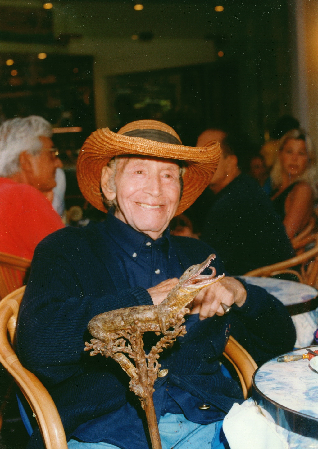 Photo is of Eric de Kolb in the Isle of Capri. The cane he has is one of many of his original designs. Mrs. de Kolb (wife and copyright owner) has given permission to B. Stettner to show this faithful representation of original photograph on Wikipedia. License: CC-by-3.0, copyleft